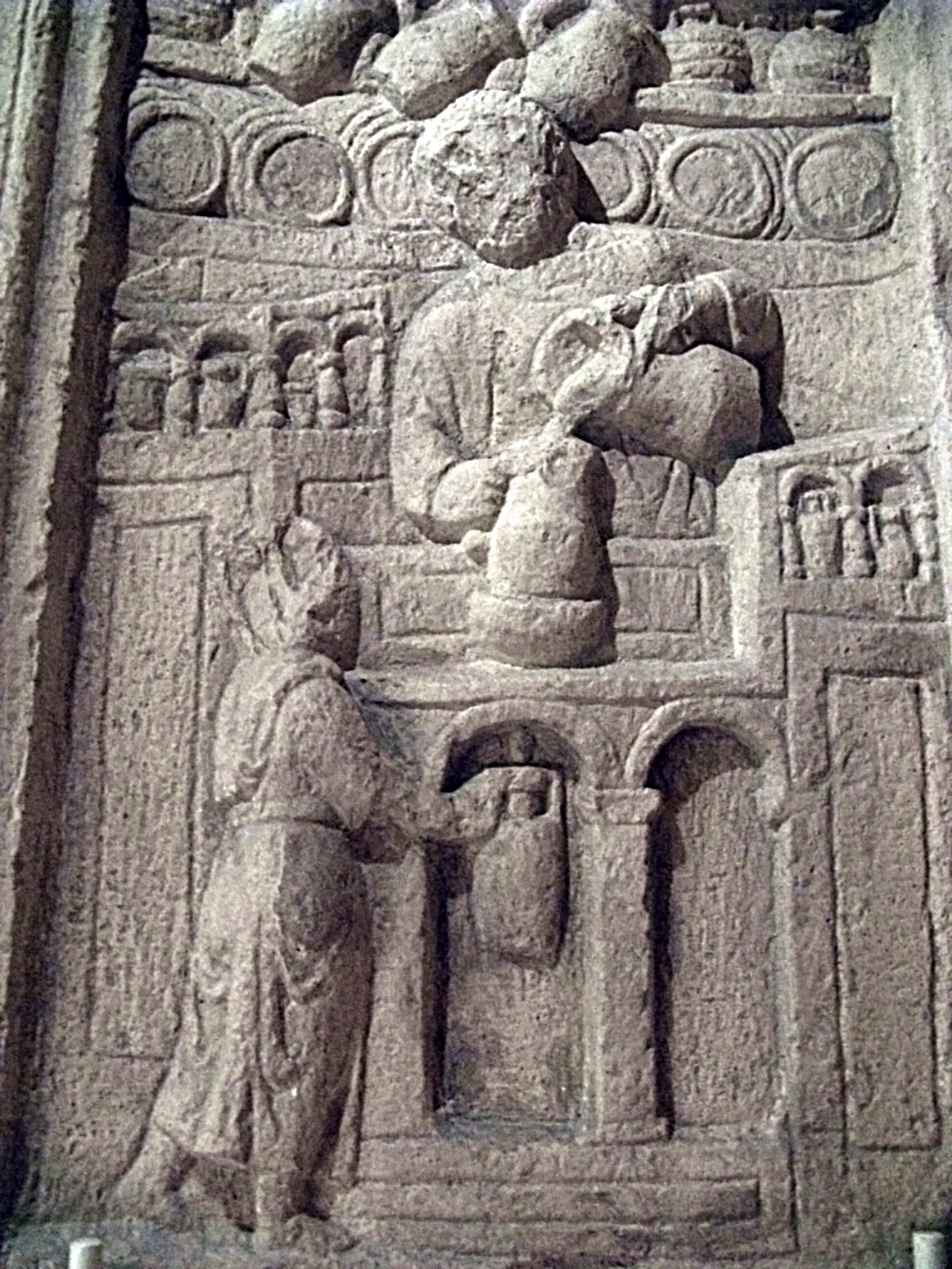 Limes Thermal Bath: Copy of an Roman relief, wine seller. Original founded 1973 in Augsburg, Bavaria.